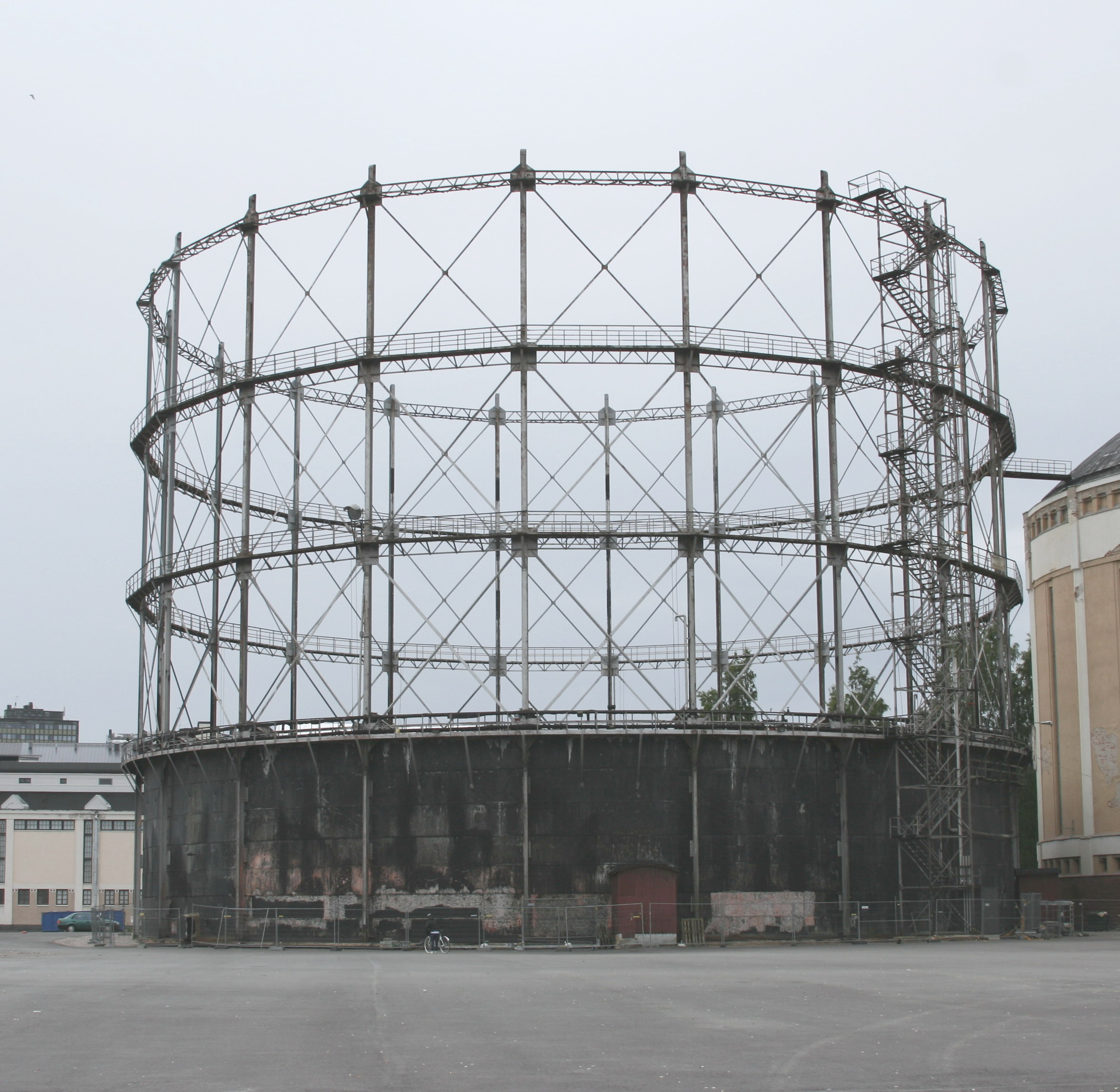 Suvilahti gasometer in Helsinki, Finland. Completed 1929. Volume 50000m3.